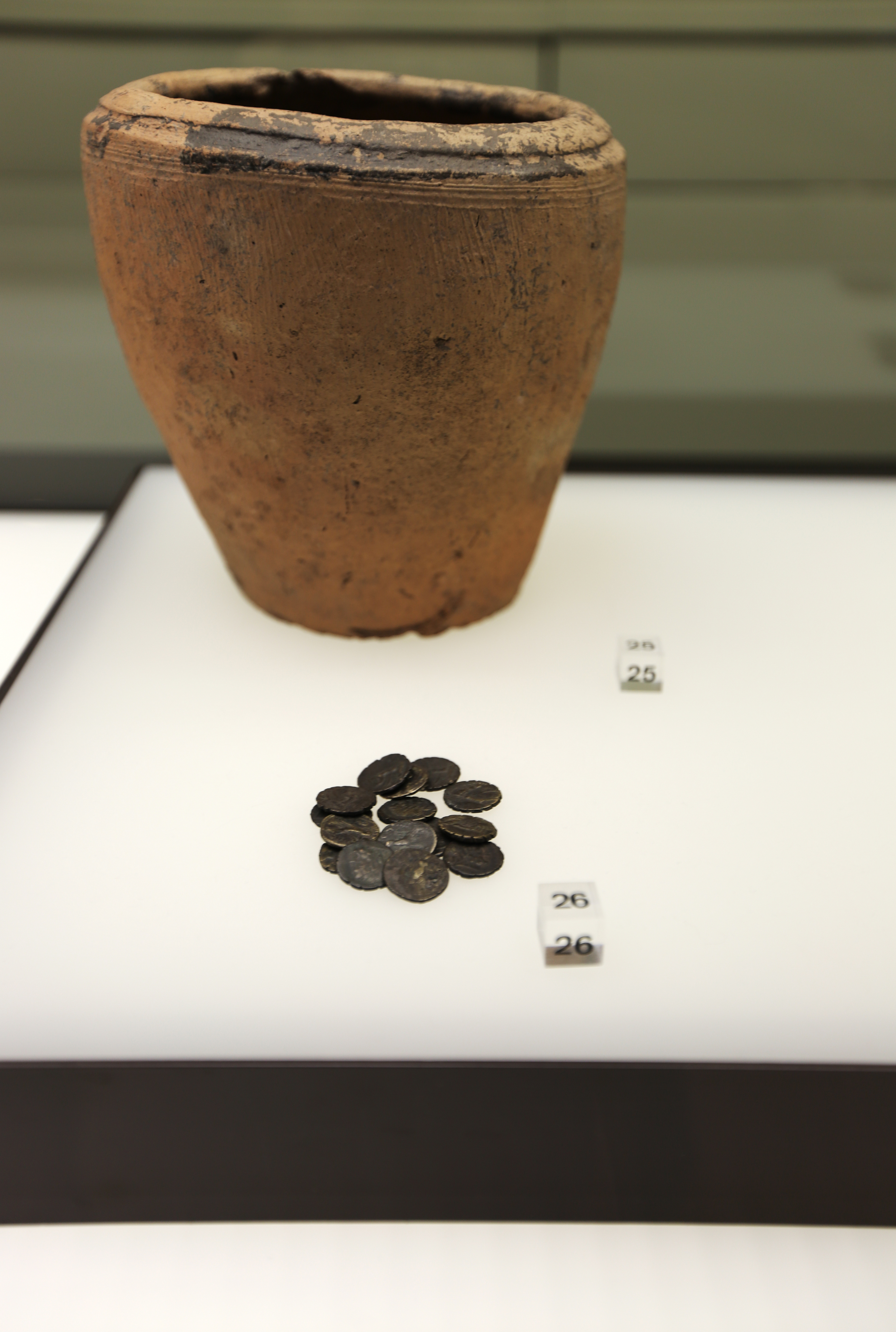 Early Roman pottery and Ubian money of 1th century in Cologne,Romisch-Germanisches Museum, Cologne